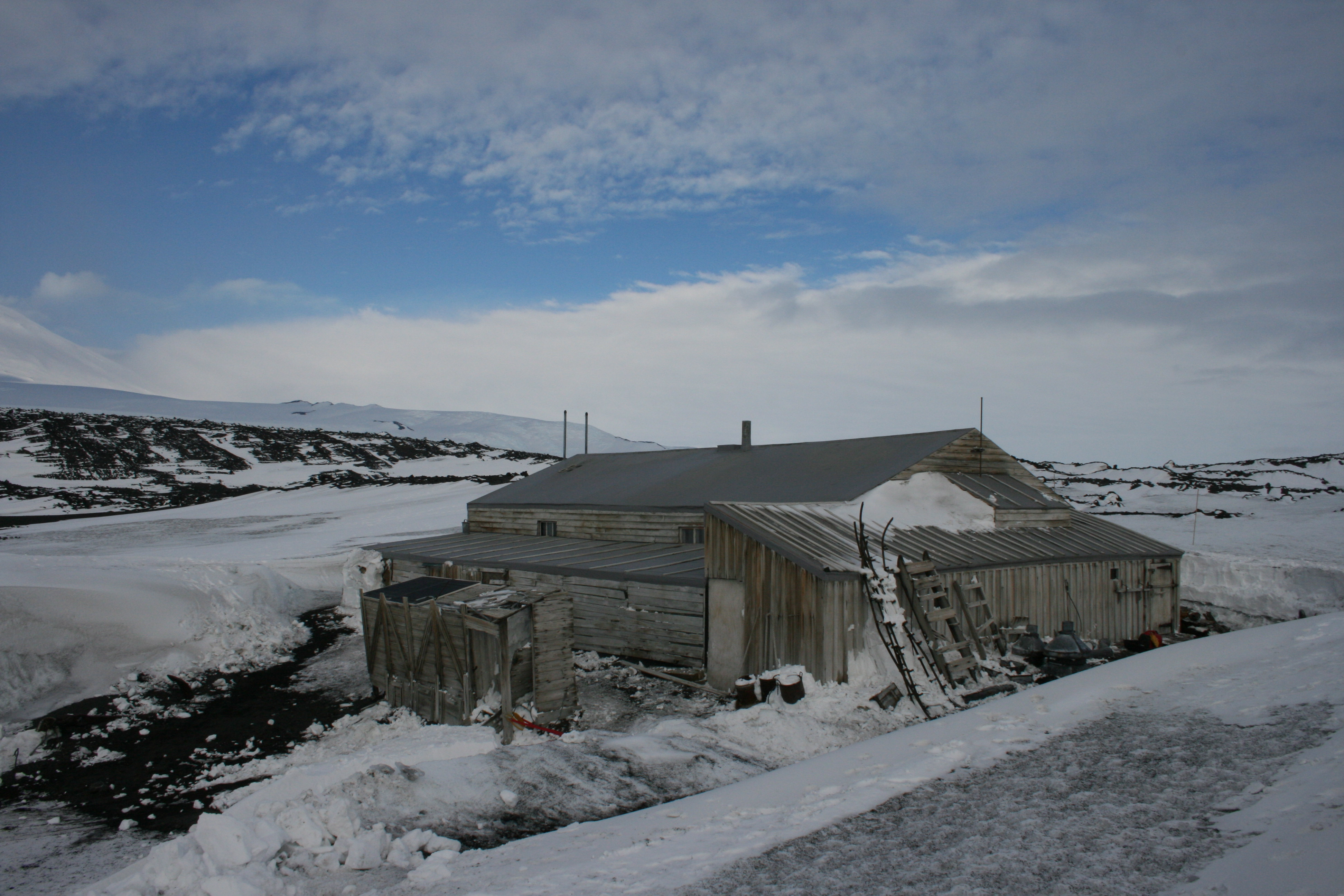 Scott's Hut